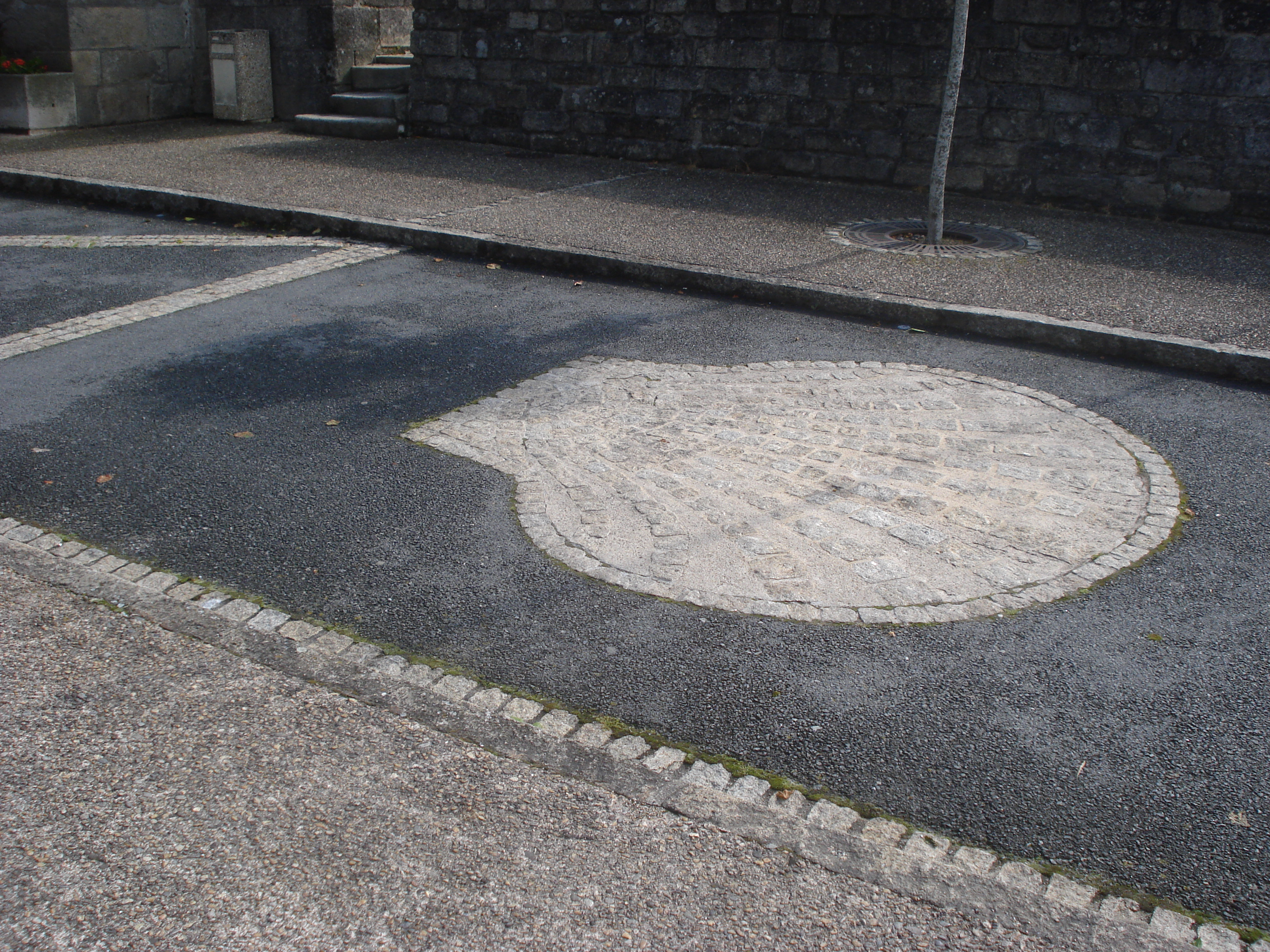 Bénévent-l'Abbaye (Creuse, Fr), St.James shell on the road